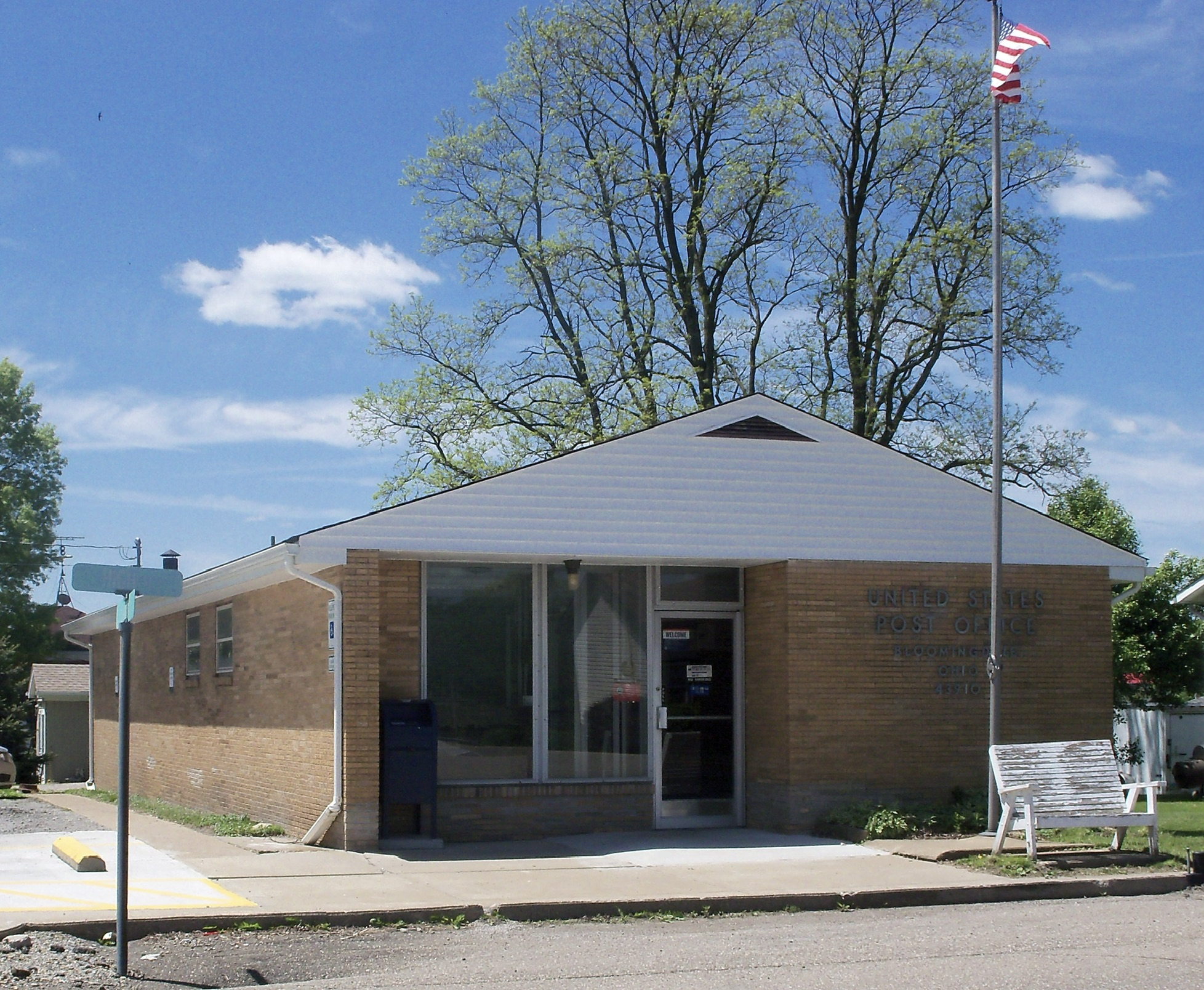 United States Post Office branch in Bloomingdale, Ohio on county road 23, Jefferson County, Ohio